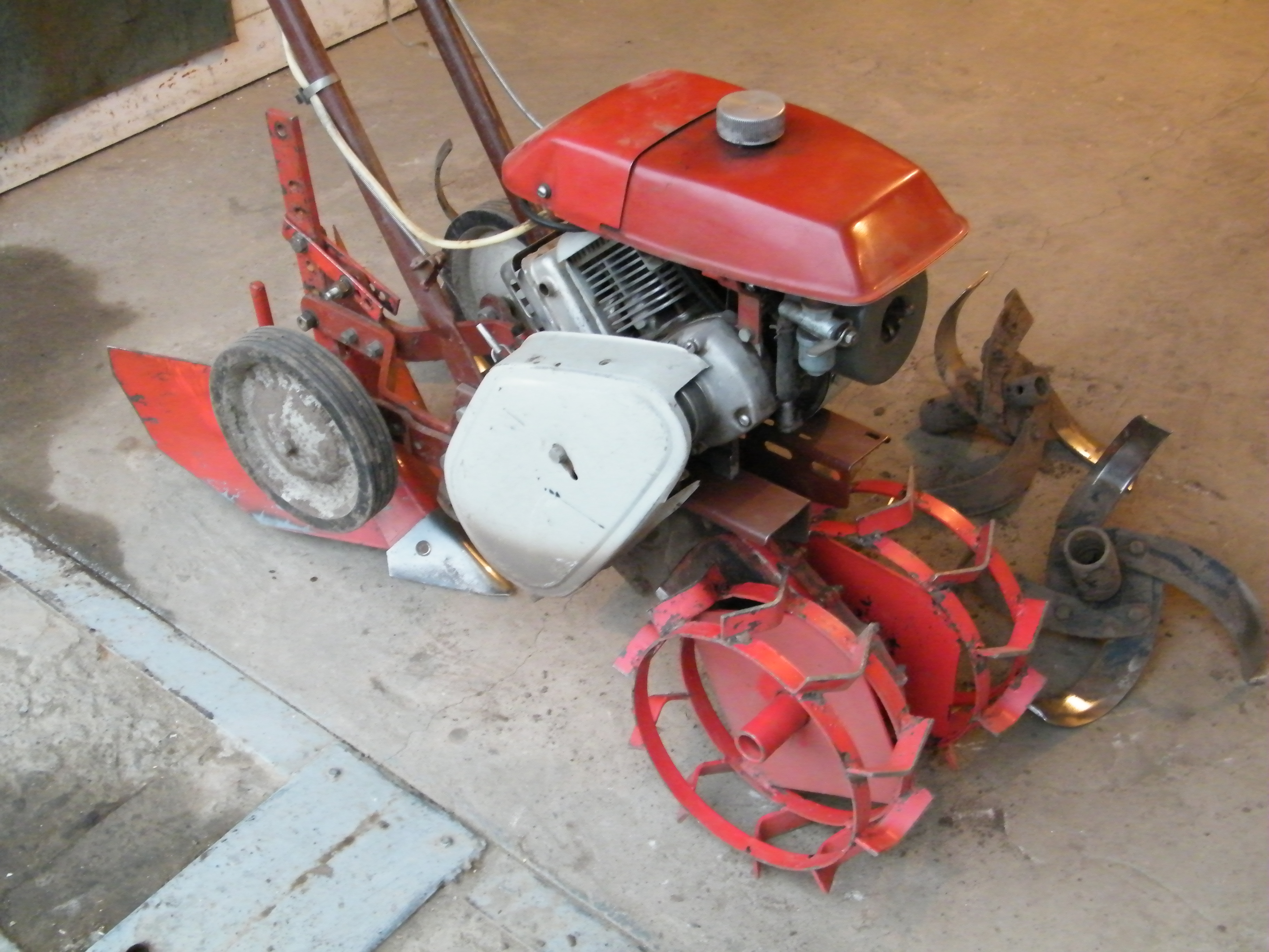 Krot from Russia